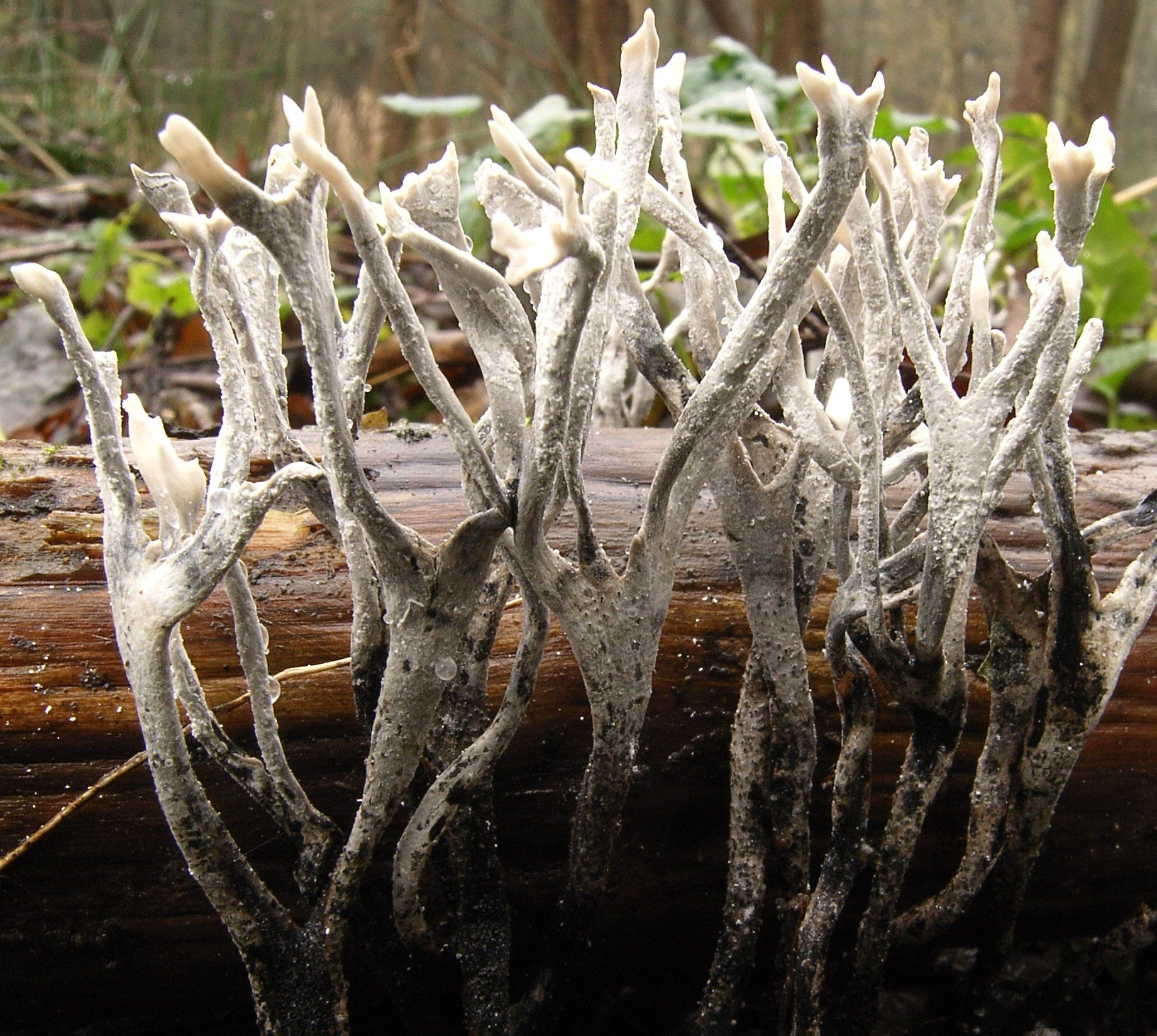 fungi